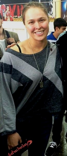 Ronda Rousey posing with a fan in Armenia.